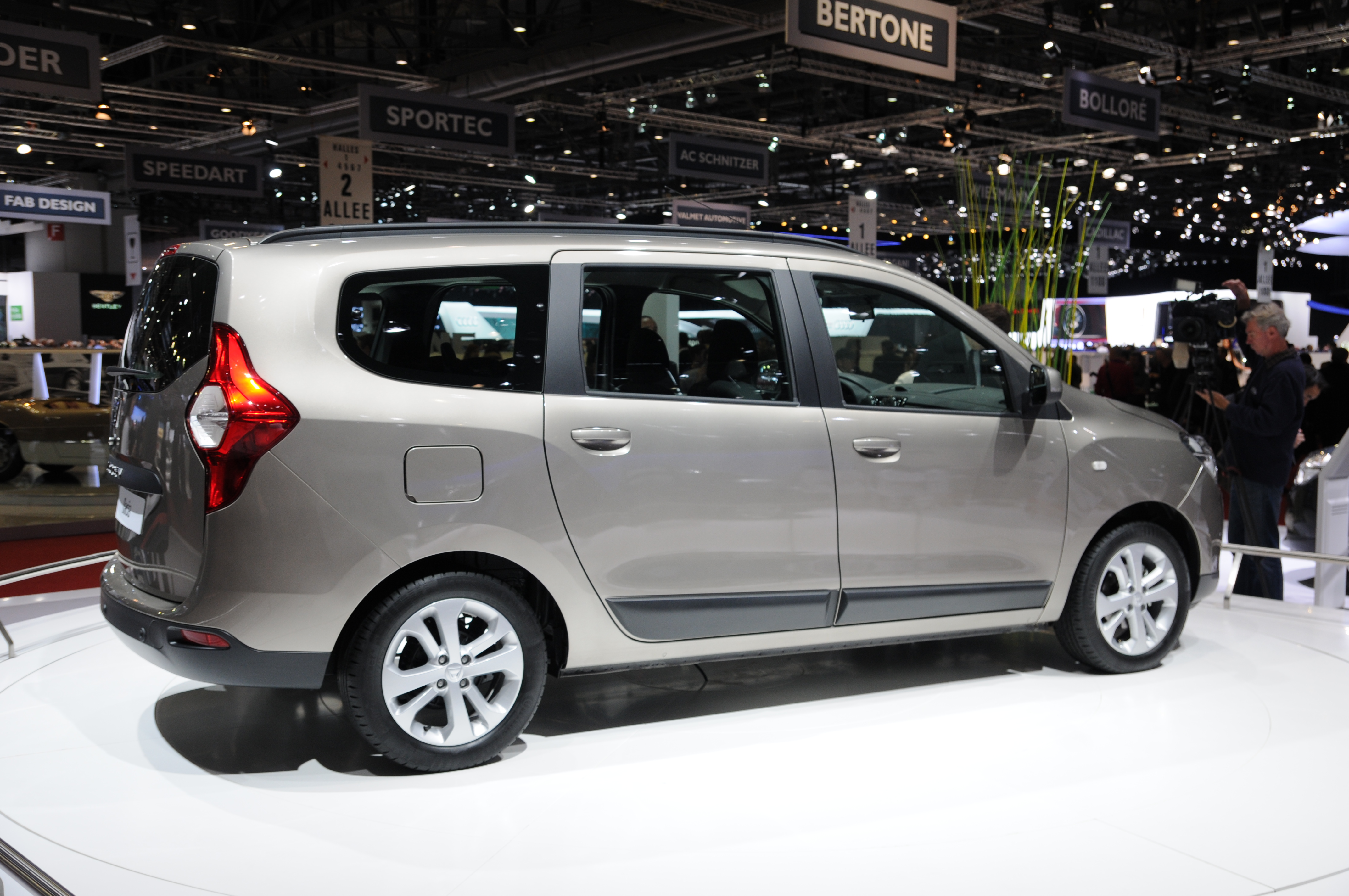 Geneva Motor Show 2012 (photos taken on the second press day)